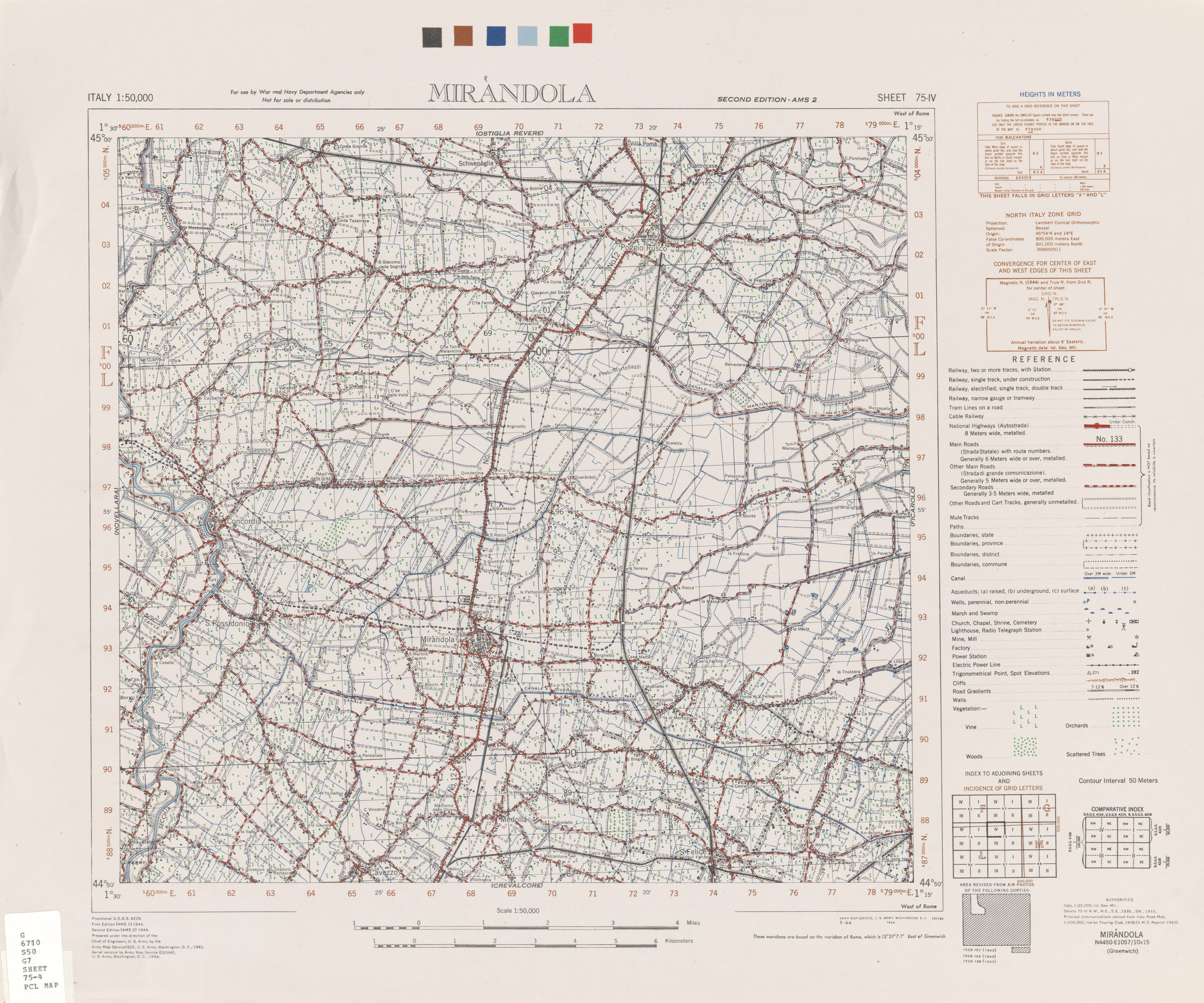 Map of Mirandola (Italy) made by U.S. Army Map Service, 1941 (Series 4229, Sheet 75-IV, 1:50,000)